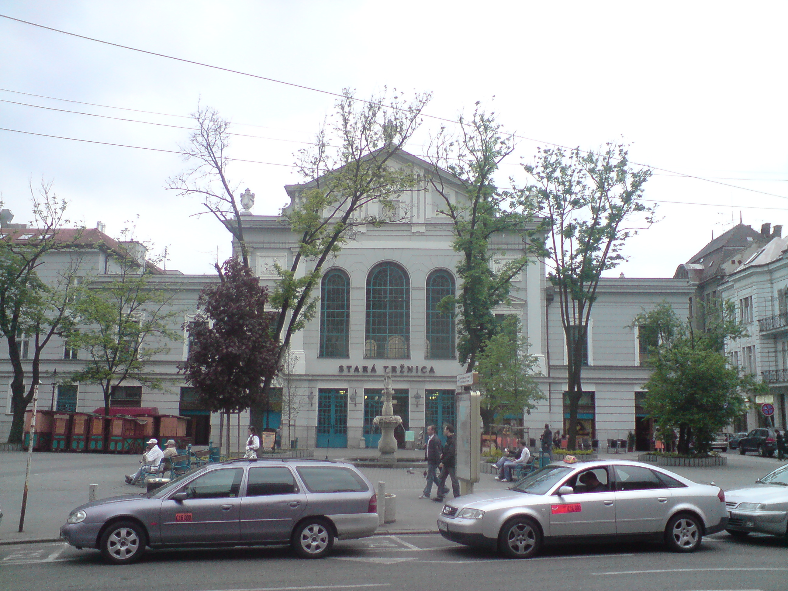 Stará tržnica, Námestie SNP, Bratislava This medium shows the protected monument with the number 101-650/0 in the Slovak Republic.